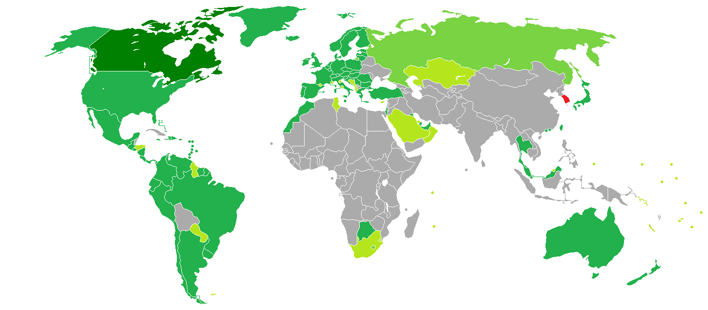 Visa policy of South Korea South Korea Visa-free - 180 days Visa-free - 90 days Visa-free - 60 days Visa-free - 30 days Visa required